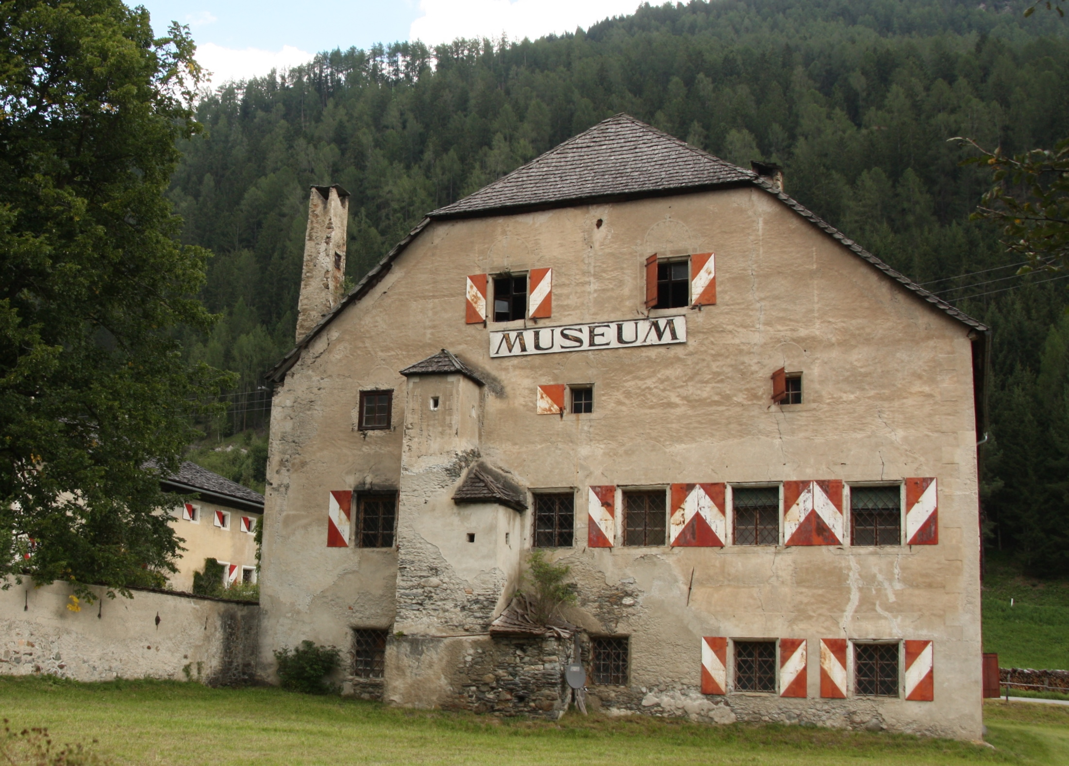 Schloss Großkirchheim, western facade